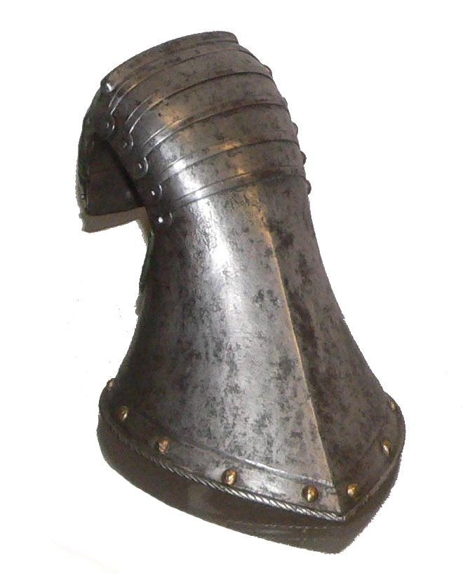 gauntley, 16th century